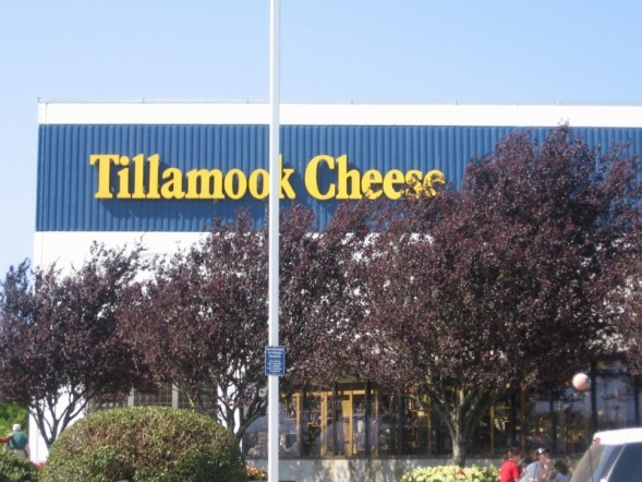 August 2006 outside Tillamook County Creamery Association, Tillamook, OR